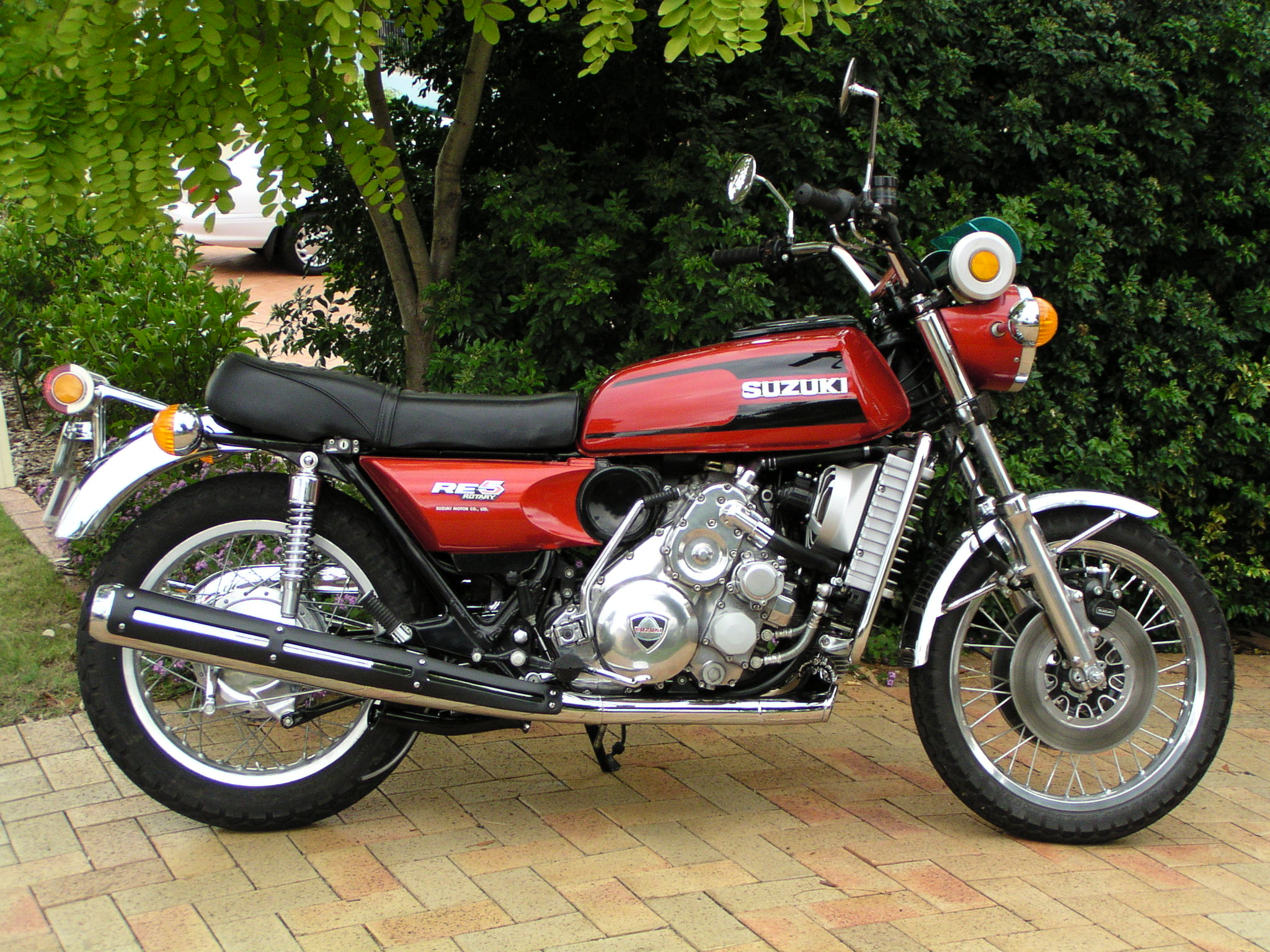 Suzuki RE5 M 1975 rotary engine motorcycle